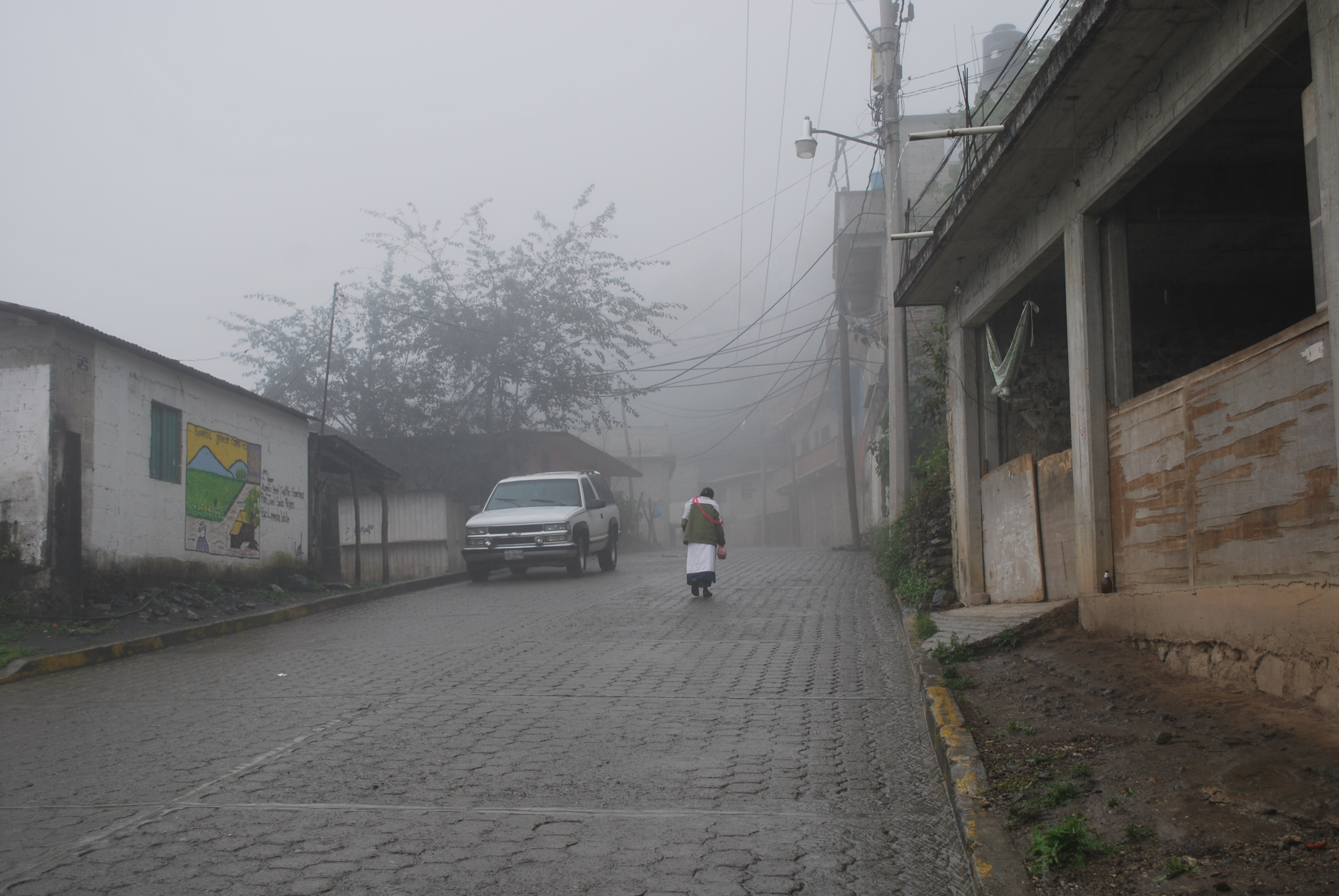 Street in rain in San Pablito, Pahuatlan, Puebla, Mexico